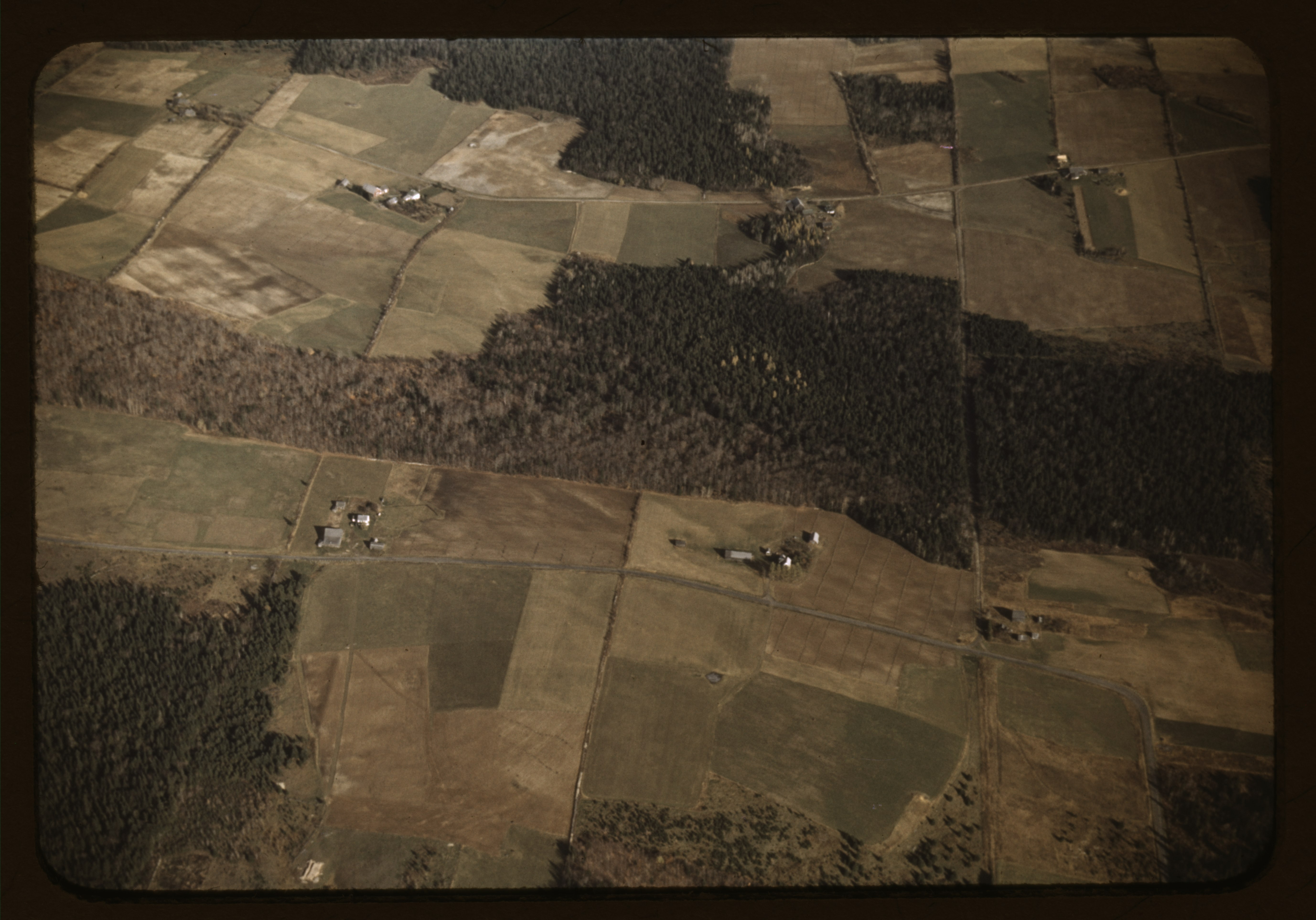 Title: Potato farms showing layout of land and buildings, vicinity of Caribou, Aroostook, Me. Abstract/medium: 1 slide : color.